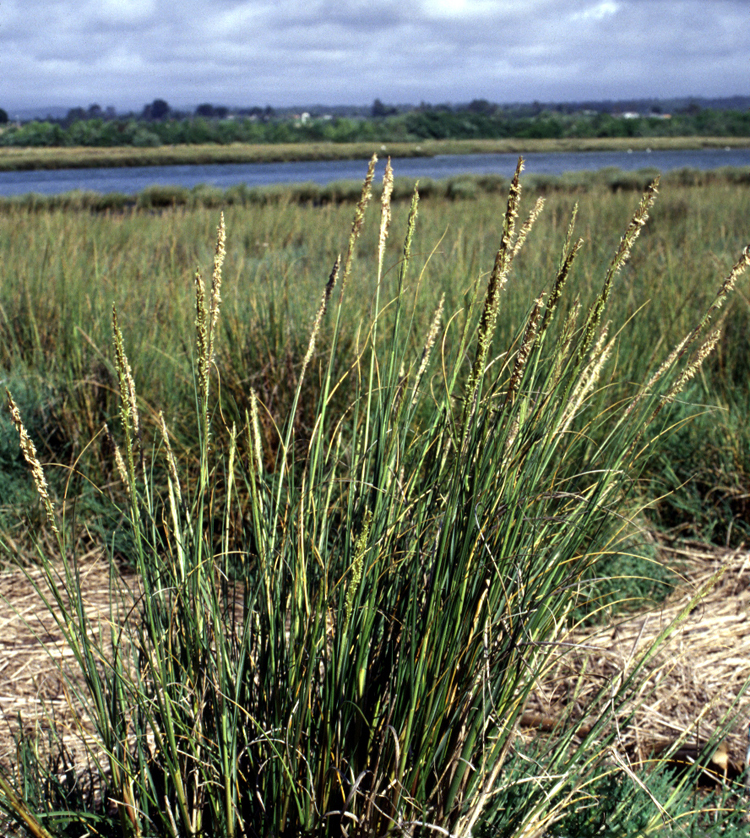 Spartina densiflora at Humboldt Bay National Wildlife Refuge Complex, California, USA